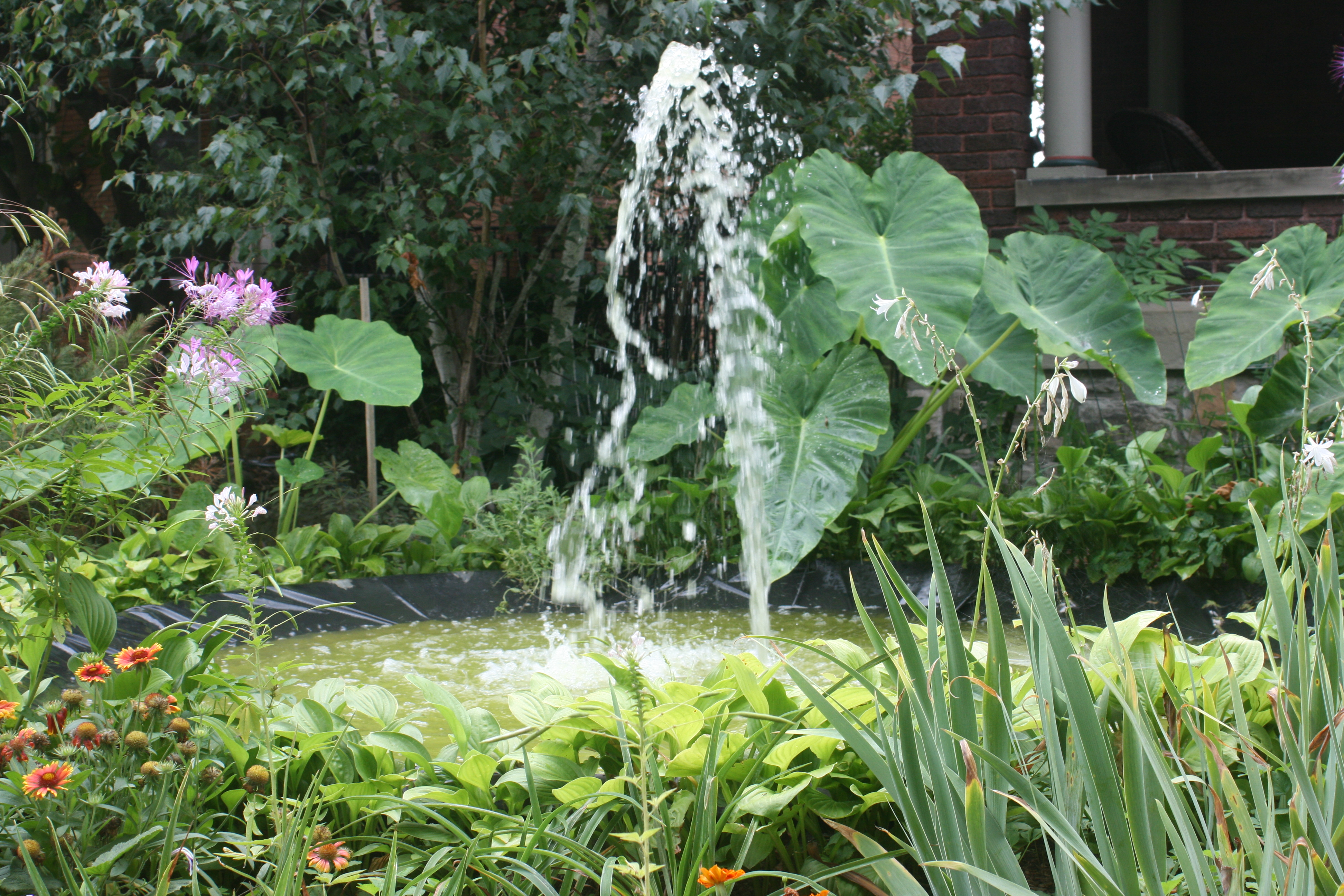 The influence of the Conservatory and Franklin Park gardens combined permeates through the rest of the neighborhood.